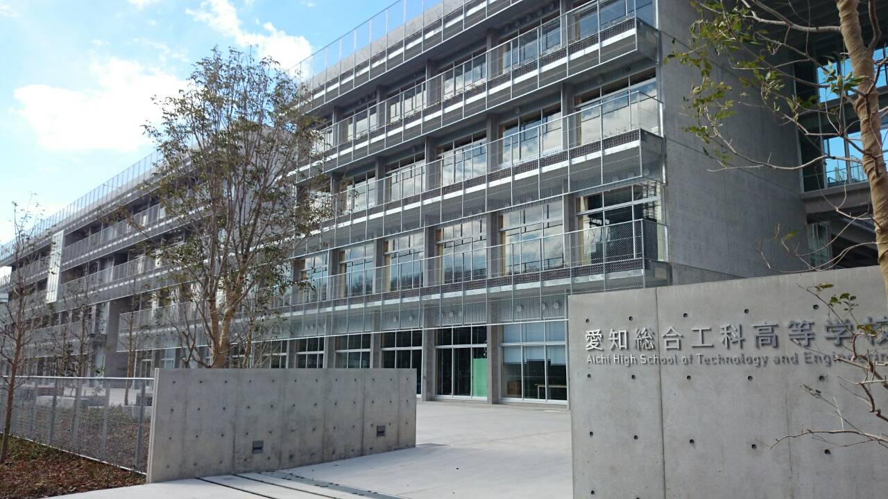 Entrance, Aichi Prefectural Aichi High School of Technology and Engineering